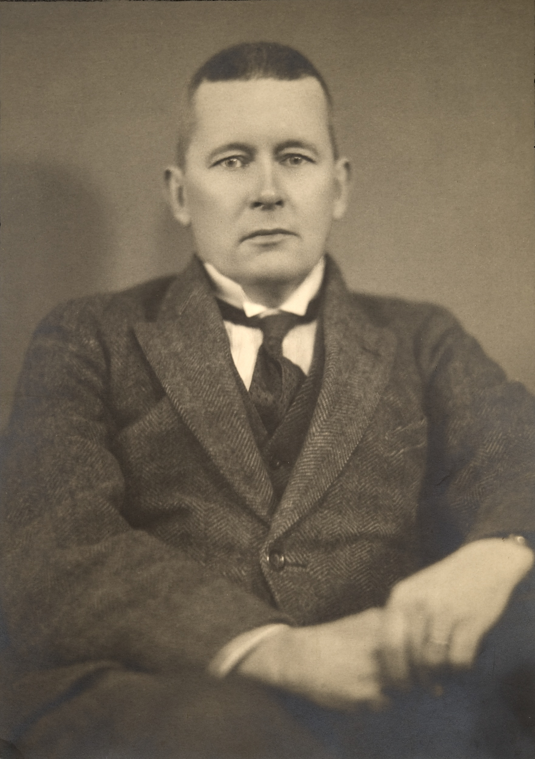 Photograph of the Finnish writer Bertel Gripenberg (1878–1947).